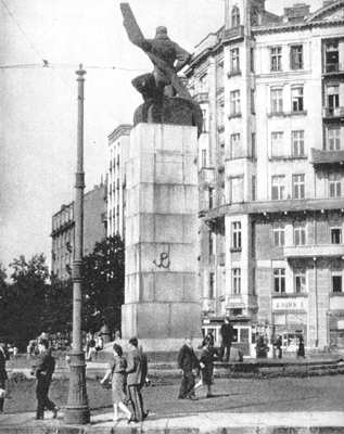 Kotwica - emblem of the Polish Secret State and Armia Krajowa painted by Jan Bytnar "Rudy" the Pilot Memorial on Unii Lubelskiej Square in Warsaw.